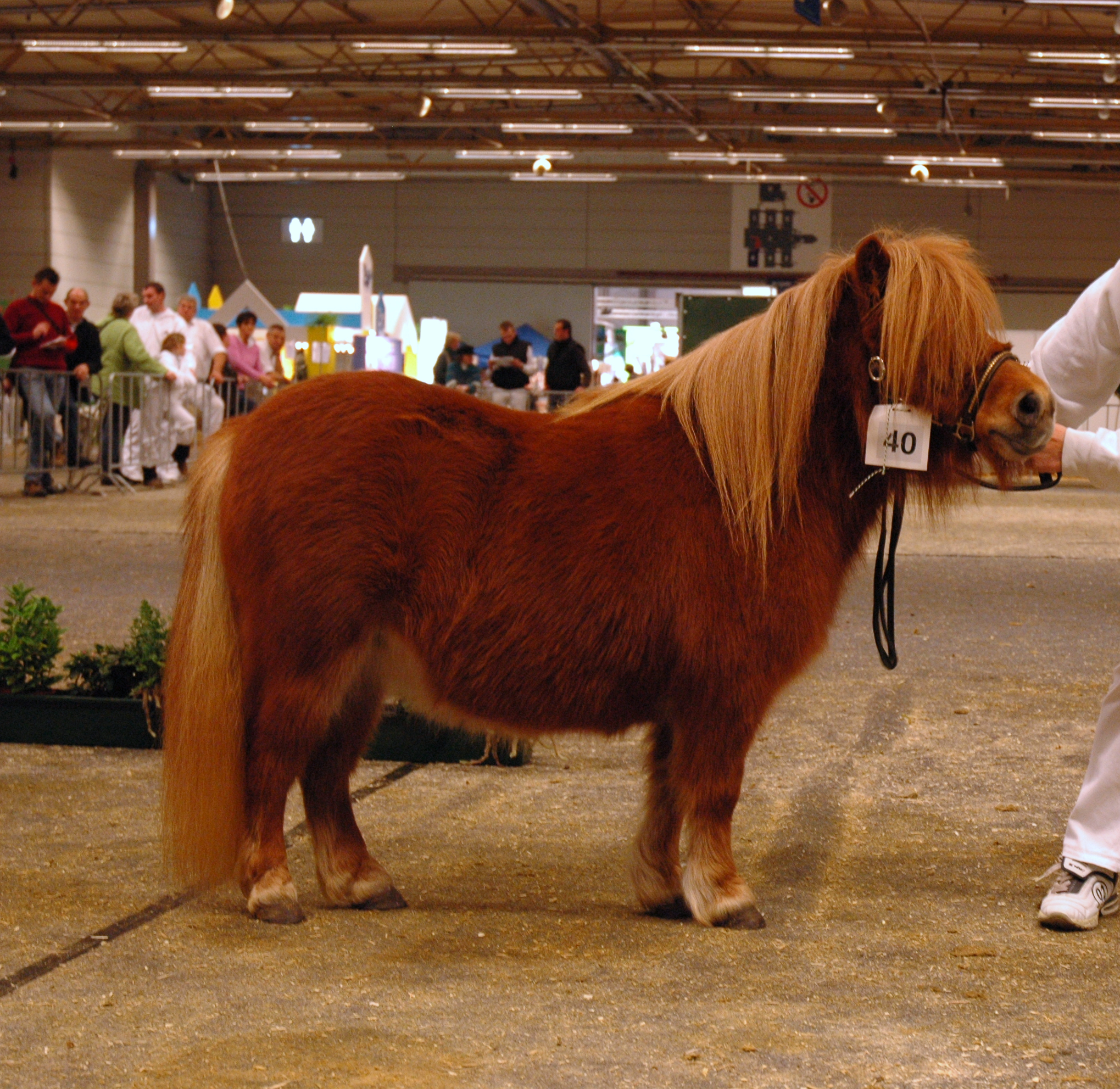 A Shetland pony at a Flemish agricultural show.